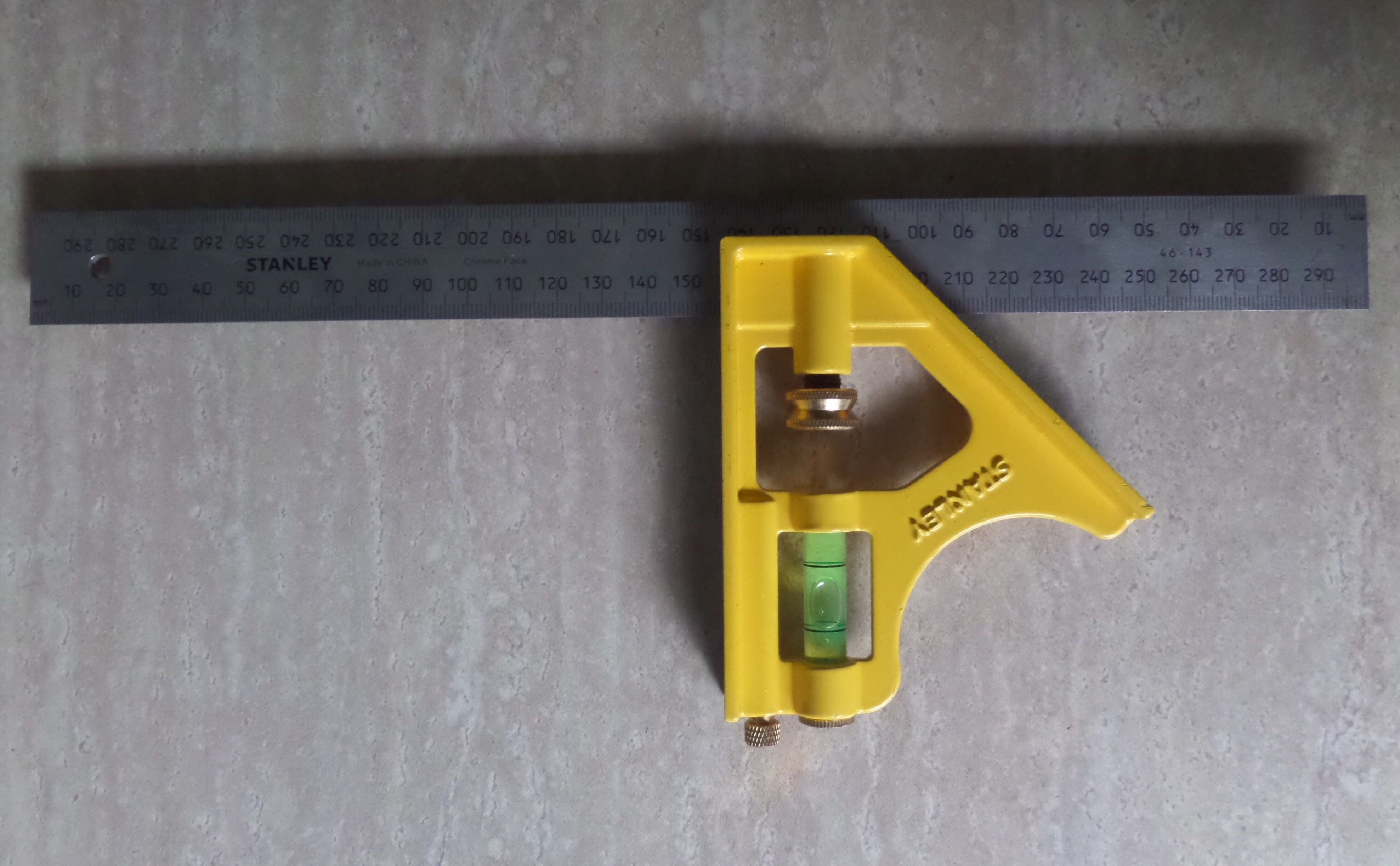 Yellow 300mm Stanley combination square